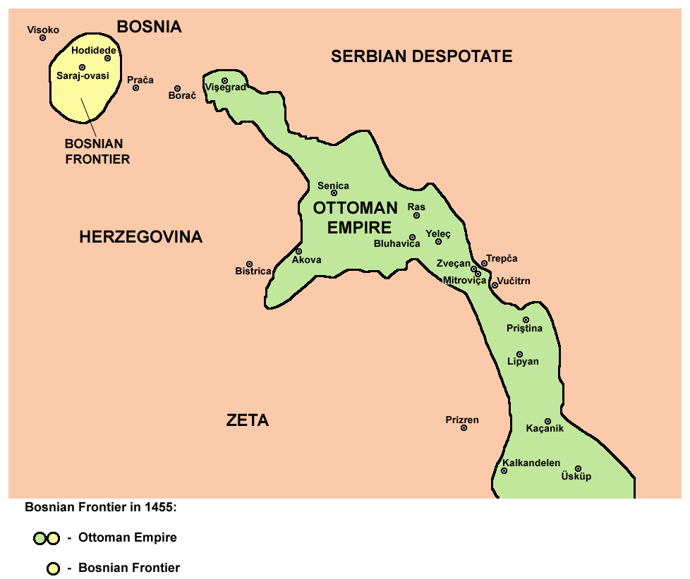 Bosnian Frontier in 1455.